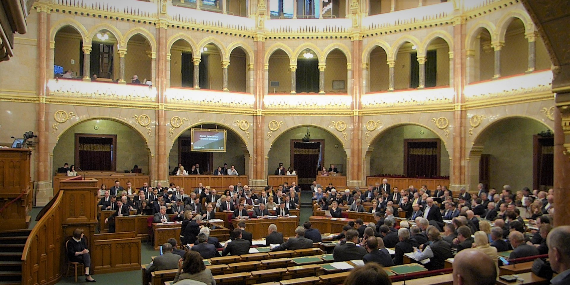 House of Commons Voting on the Family Protection Action Plan. House of Commons, Budapest, Central Europe. Sourcesː Hungarians once again have confidence in their future Retrievedː 2019.04.04 Elfogadta a parlament a családvédelmi akcióterv bevezetéséhez szükséges törvénymódosításokat Retrievedː 2019.04.01